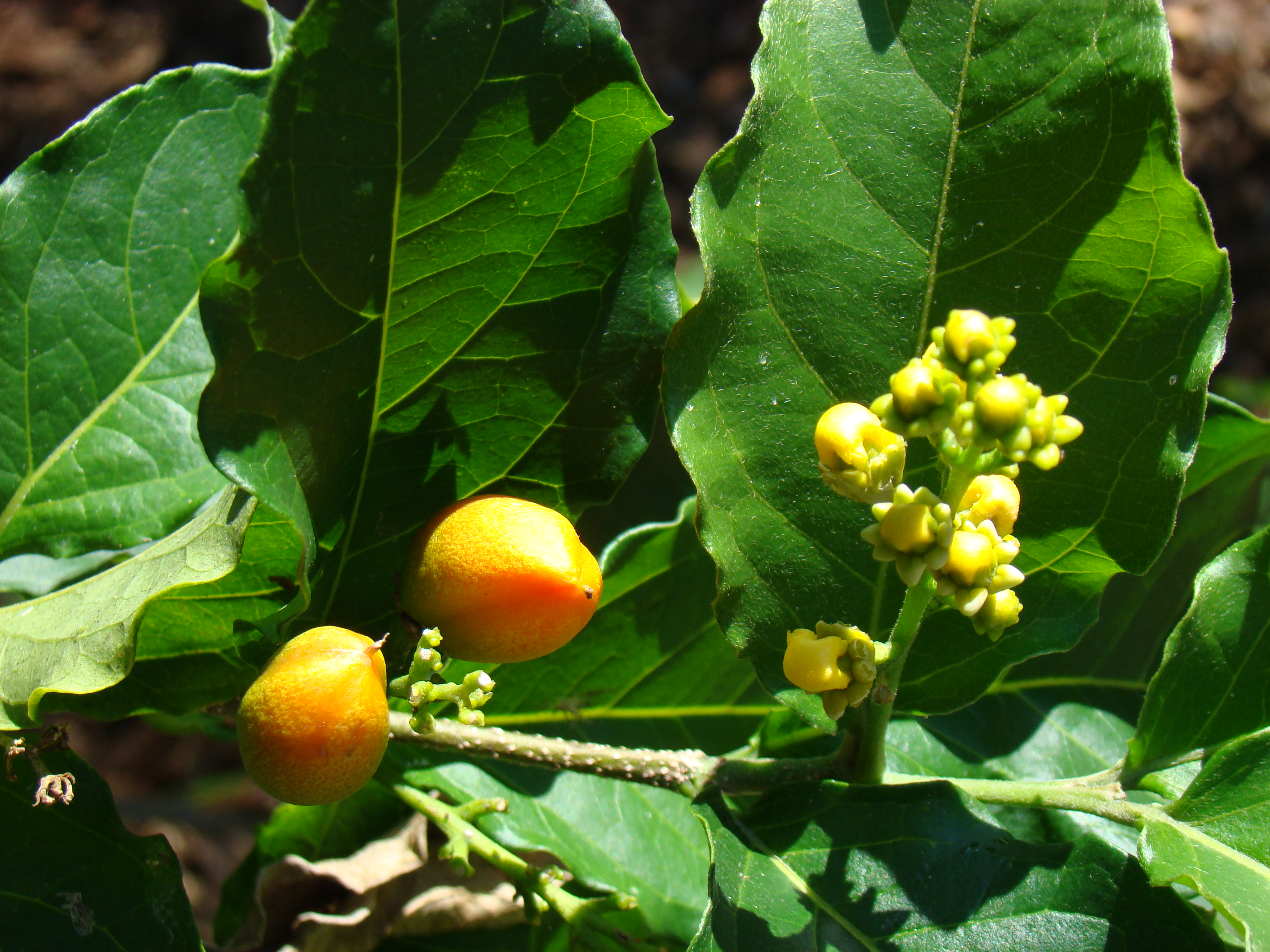 Fruits of the Peanut Butter Fruit (Bunchosia argentea / Malpighiaceae) tree at ECHO (Educational Concerns for Health Organization), Ft. Myers, Florida.